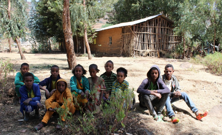 Mashih schoolyard